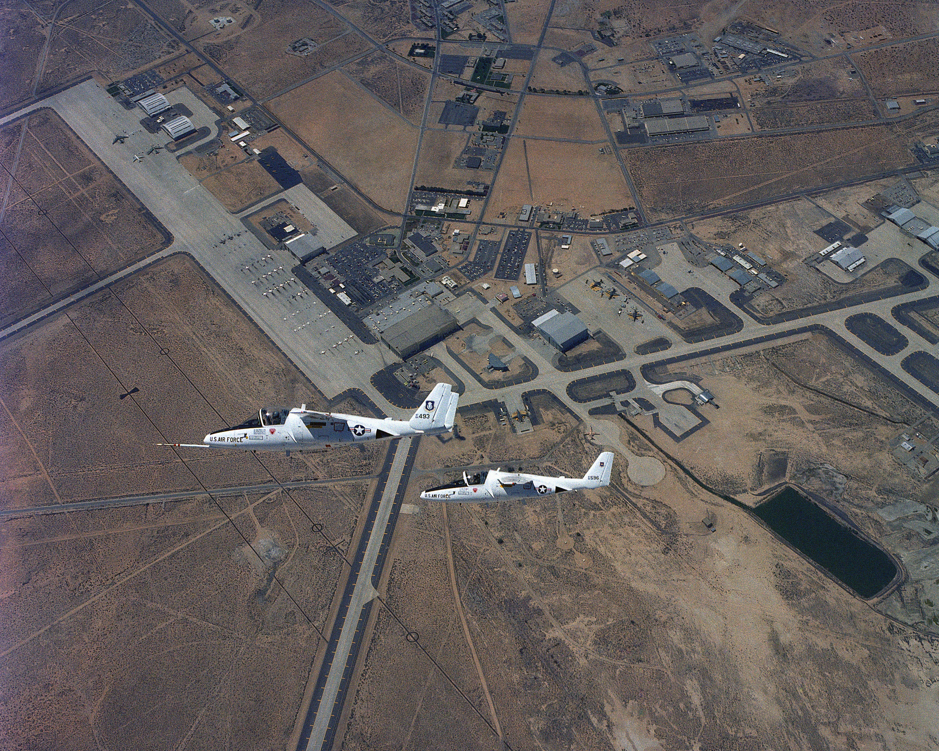 An air-to-air left side view of two T-46 aircraft circling the base. Location: EDWARDS AIR FORCE BASE, CALIFORNIA (CA) UNITED STATES OF AMERICA (USA)